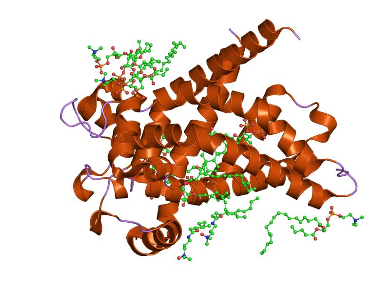 Cartoon representation of the molecular structure of protein registered with 1okc code.